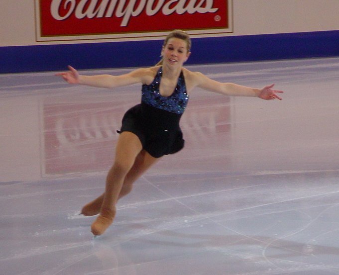 Katy Taylor performing a forward crossover.